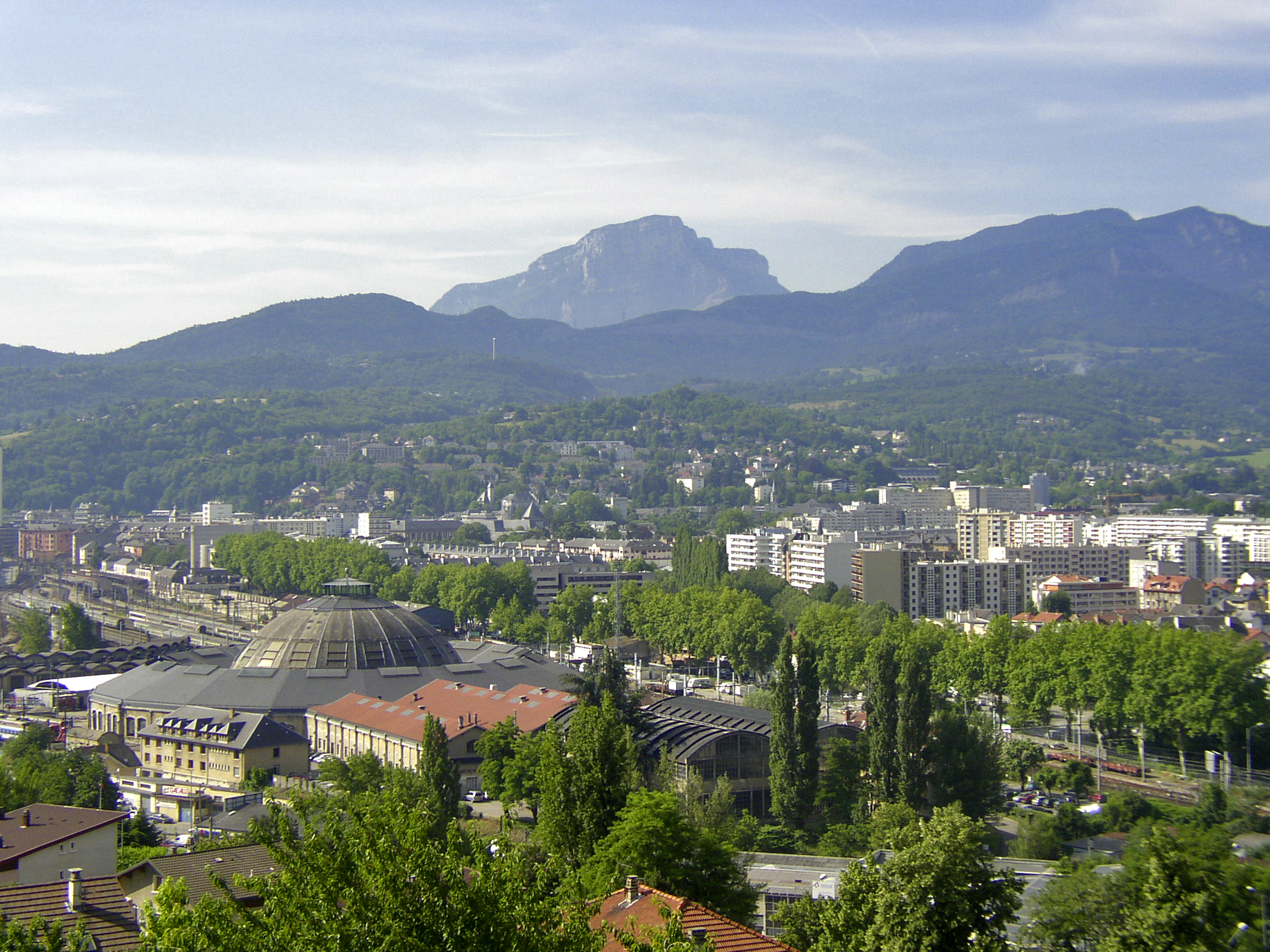 Chamberian panoramic of the district of Chantemerle on June, 15th 2006. Rotunda and station on the left. Personal picture.